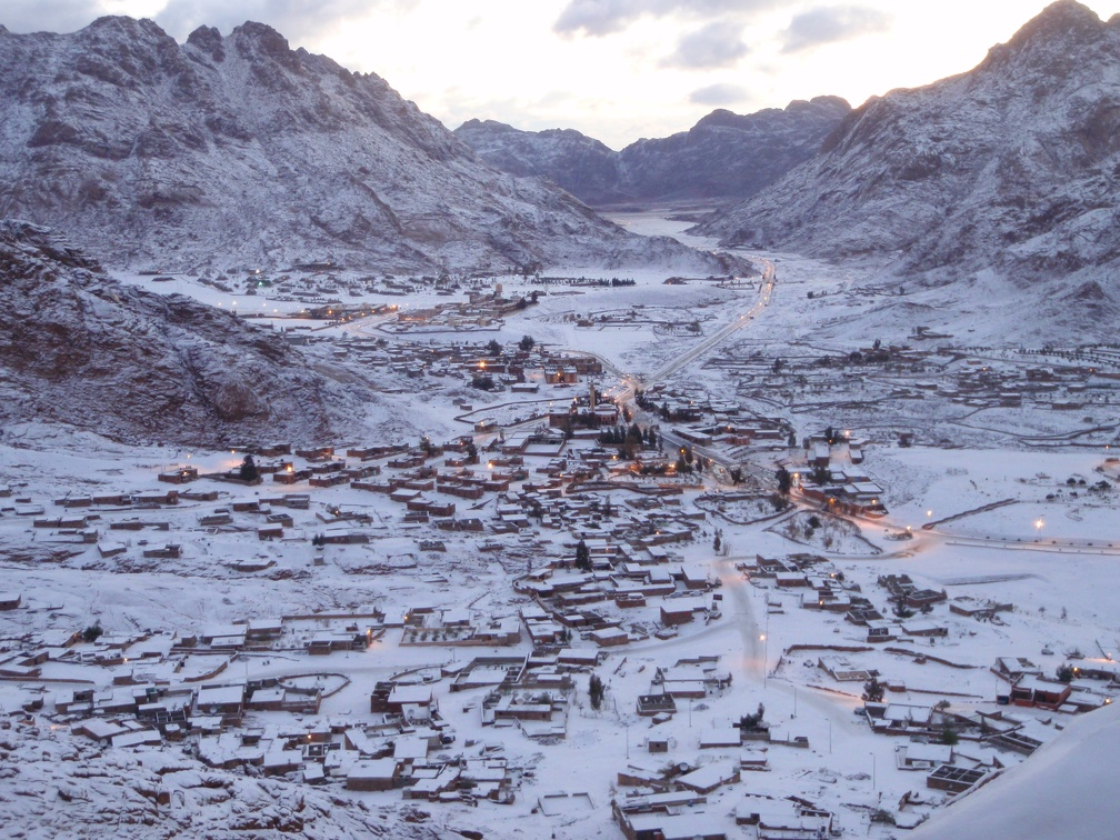 Snow in the town of Saint Katherine, Sinai Egypt, on the morning of March 1, 2009.